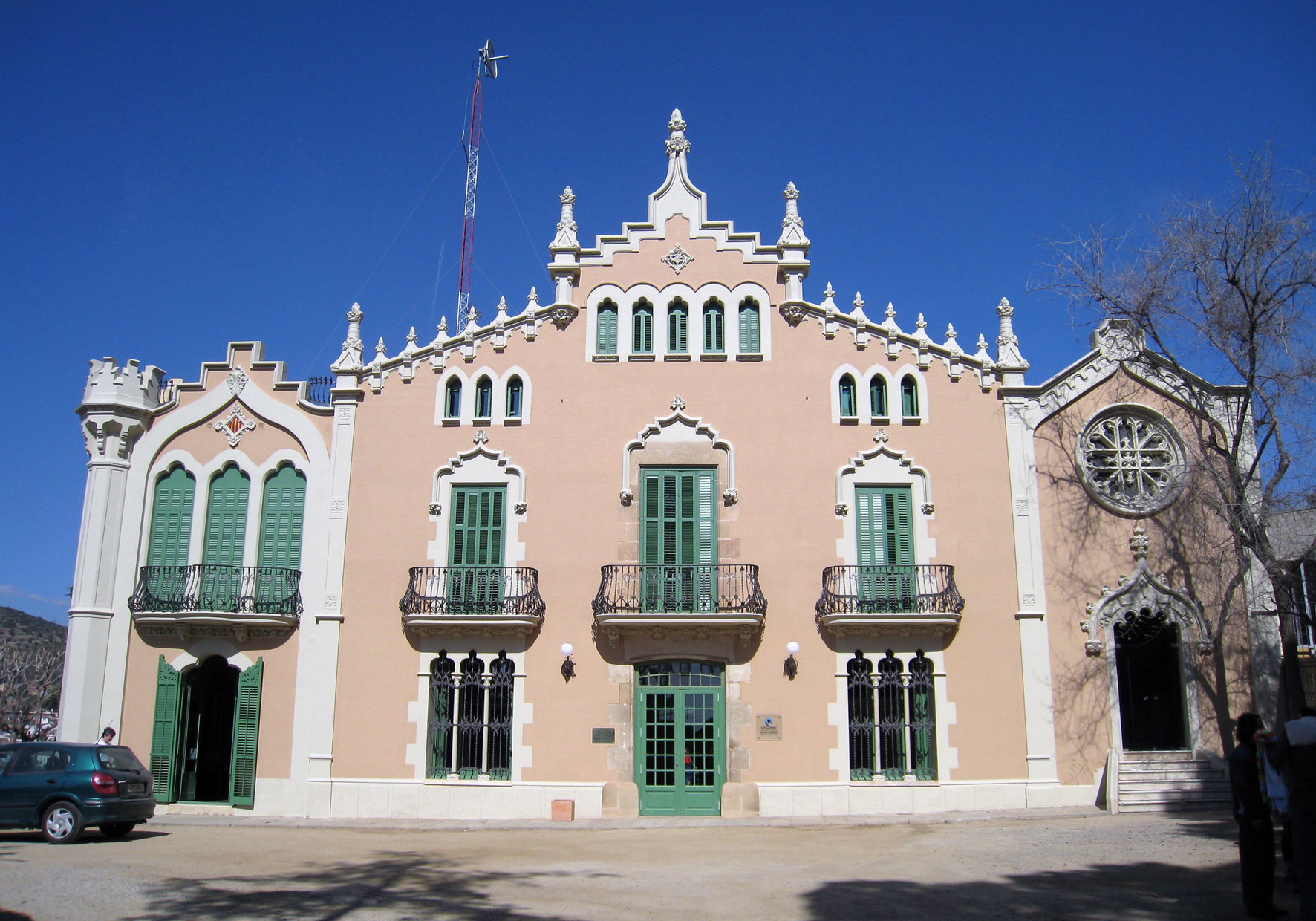 Former masia (traditional catalan farmhouse) Can Ginestar in Sant Just Desvern (Catalonia, Spain). First mentioned in 1403 and reformed in style of the modernisme (the catalan Art Noveau) from 1904 on.